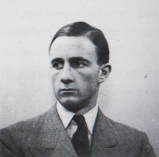 Photograph of the Australian painter Peter Purves Smith